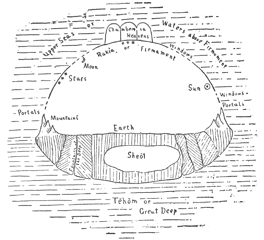 Diagram representing features in the early Hebrew conception of the Universe